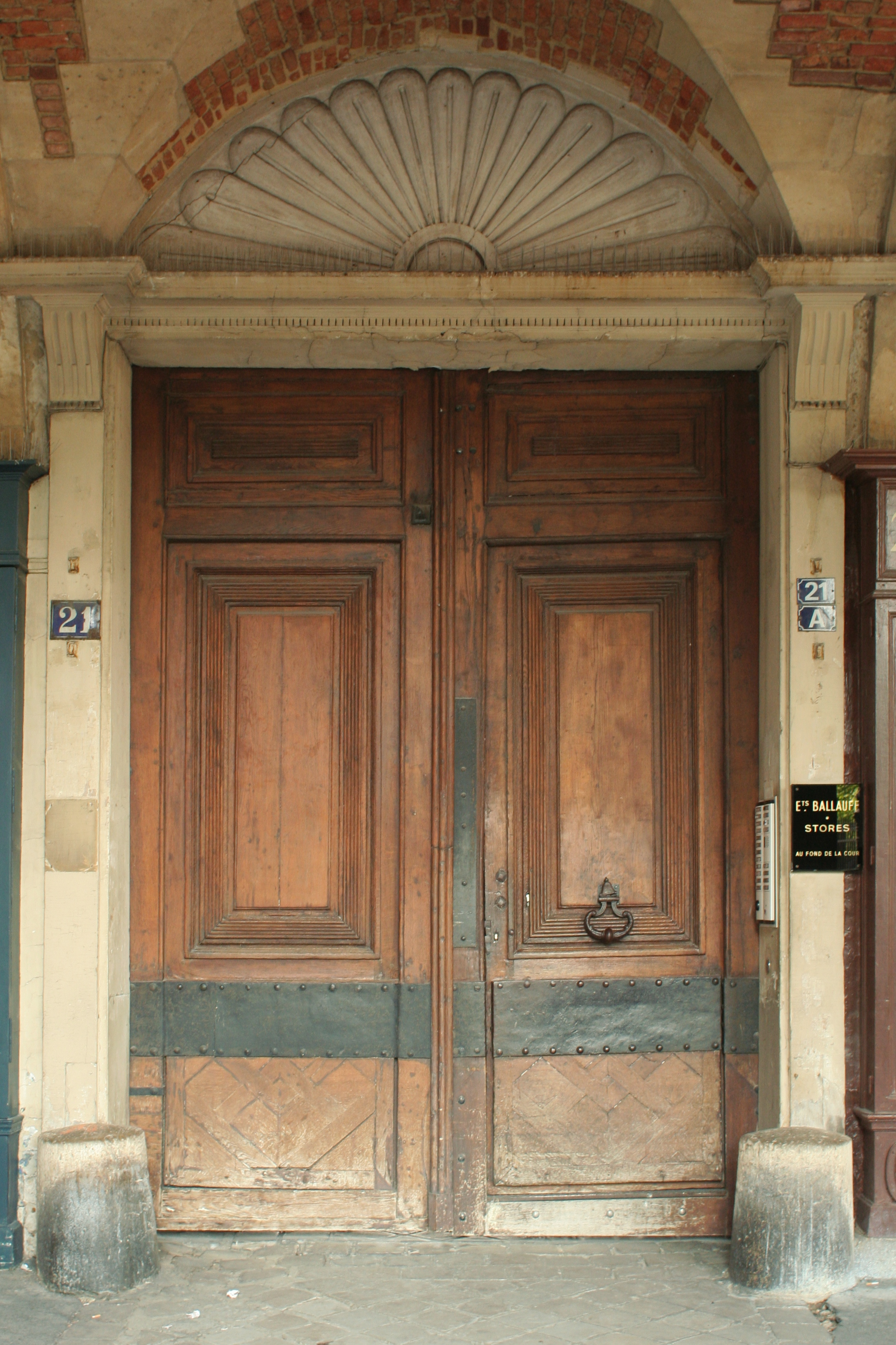 Door of 21 Place des Vosges, Paris.